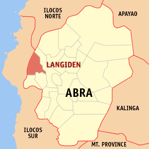 Map of Abra showing the location of Langiden